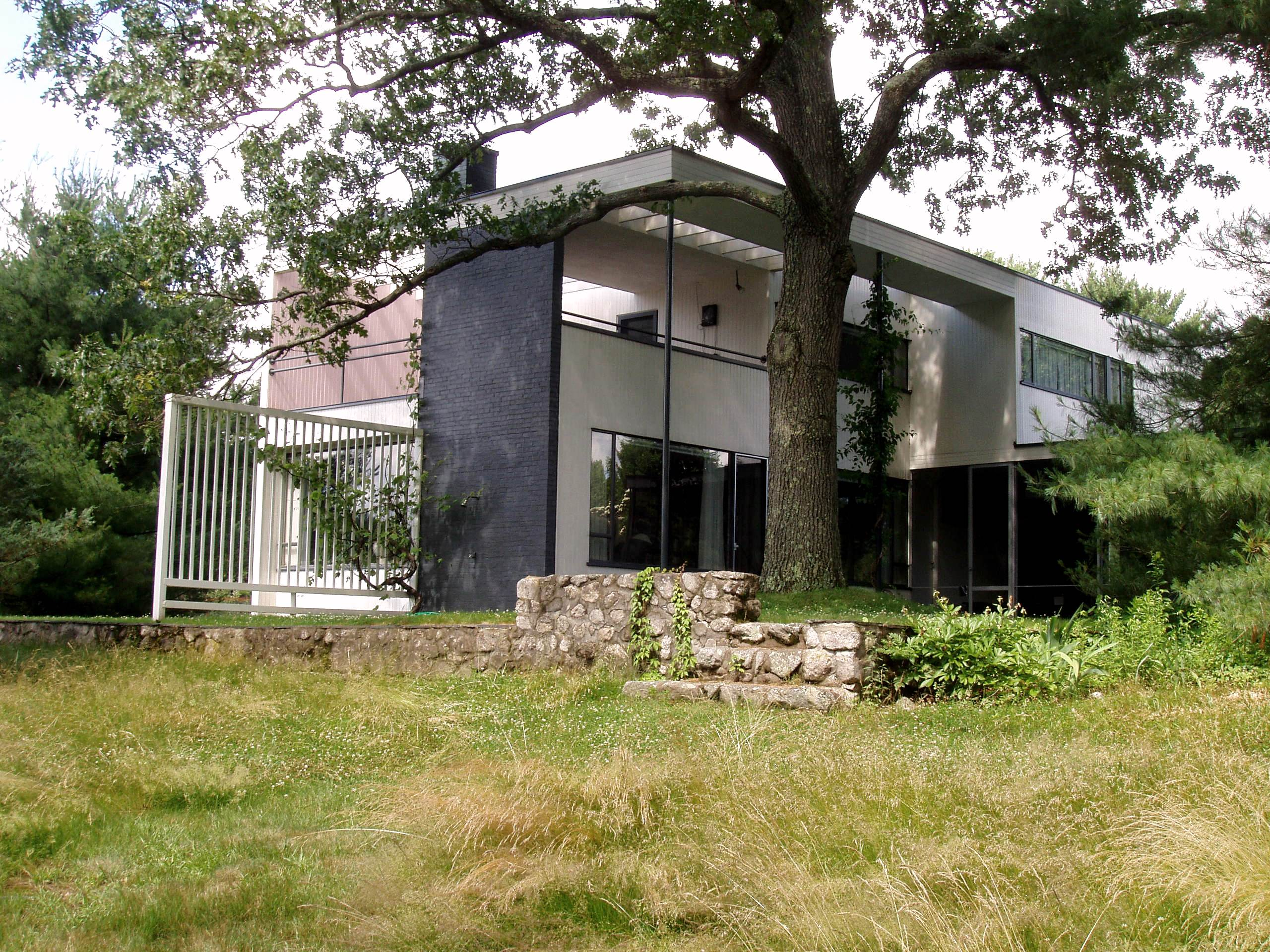 Walter Gropius House, Lincoln, Massachusetts. View from side rear. Photograph by me, July 2005.